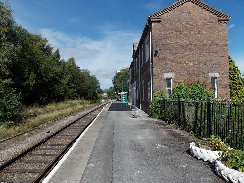 Builth Road railway station. Located 3km NW of Builth Wells, the single-platform station is a request stop on the Heart of Wales Line, between Llandrindod station and Cilmeri station. Most of the station building has been converted to houses. White-painted tyres serve as flower pots.